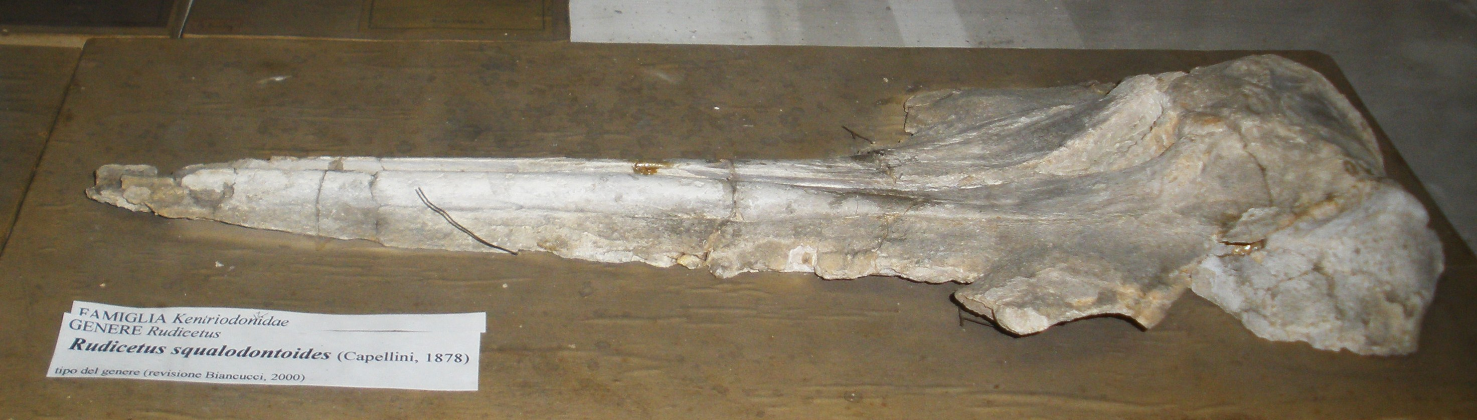 Fossil of Rudicetus squalodontoides, an extinct cetacean